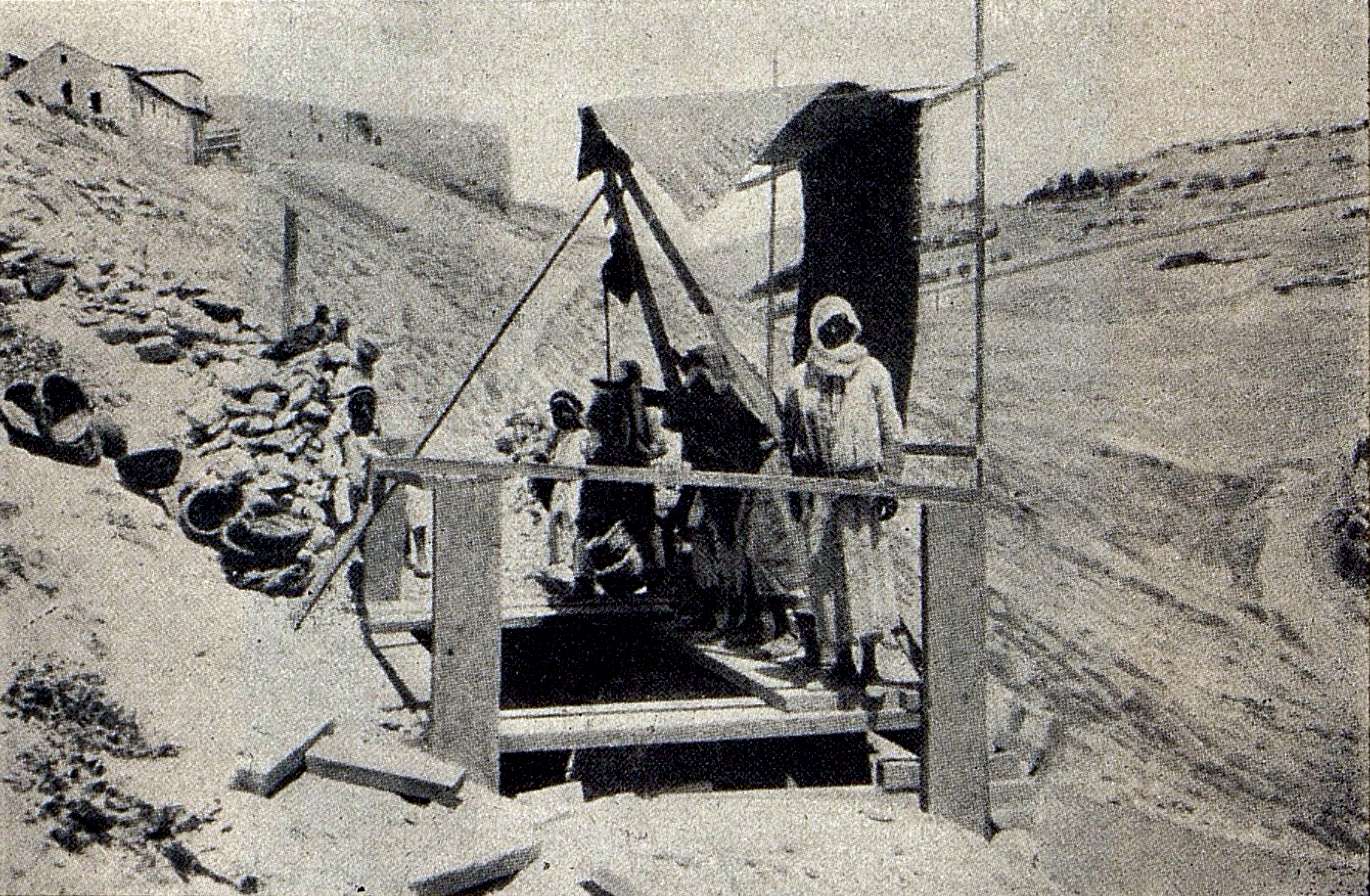 Parker excavation; tripod and pulley over a shaft, looking north. The southern wall of the temple mount can be seen in the background.